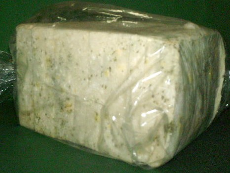 This crustless loaf of bread was baked at a corner-store kind of bakery. It was left inside its bag in a cupboard for two and a half days and turned out as seen. A possible influence factor for the mold spreading so quickly could be that the cupboard is in the tropics, and the "experiment" was performed during the rainy season (meaning the temperatures were low, and the humidity was high).